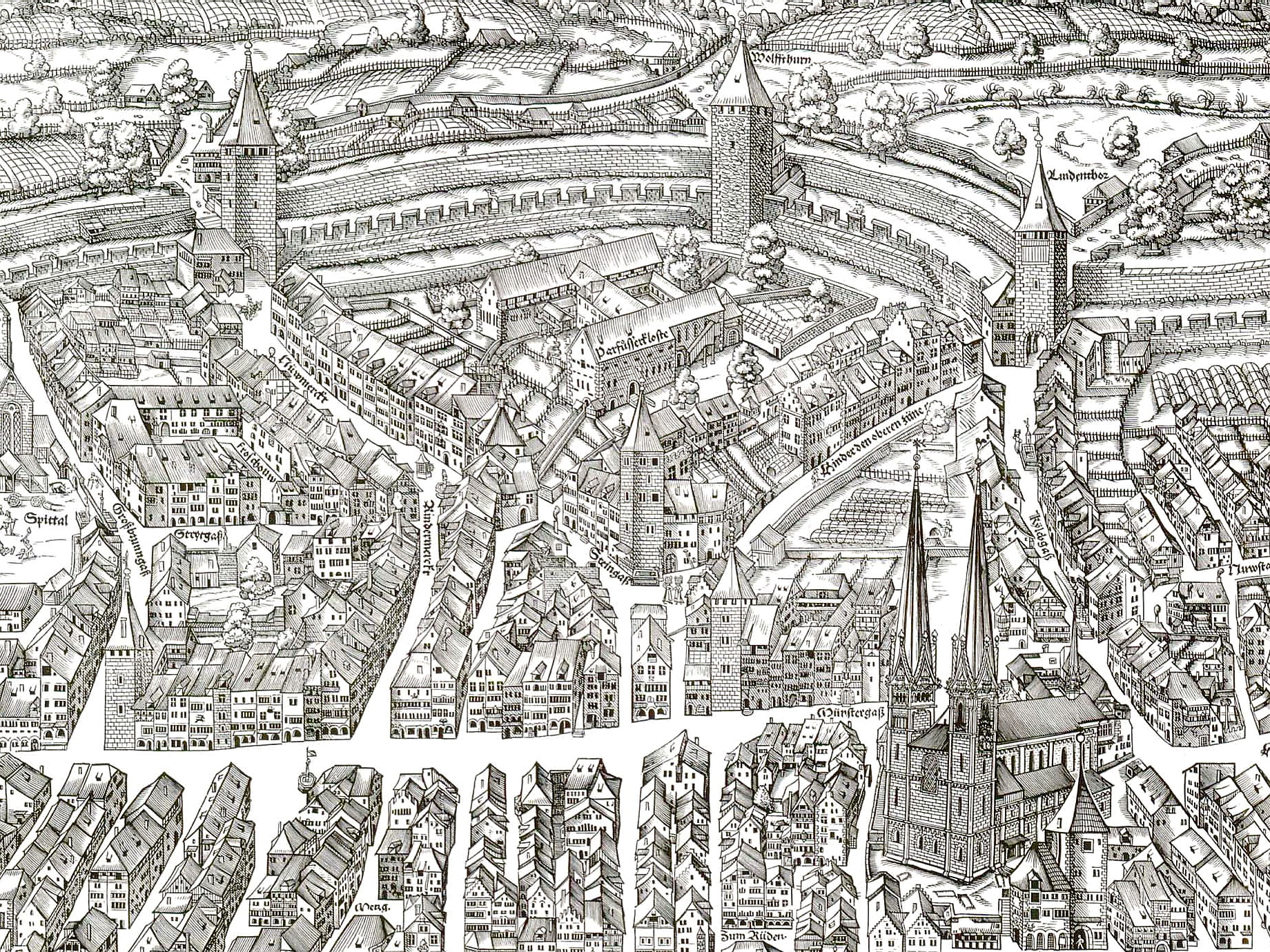 Brunnenturm (~ 1250) in Altstadt quarter. View of the city of Zürich on a xylography by Josua Murer, 1576. The original headline can be roughly translated into "The ancient widely known city Zürich's design and positioning, as its essense/character is projected and build at this time by Josen Murer, and printed by Christoffel Froschauer in 1576 in honour of the fatherland."